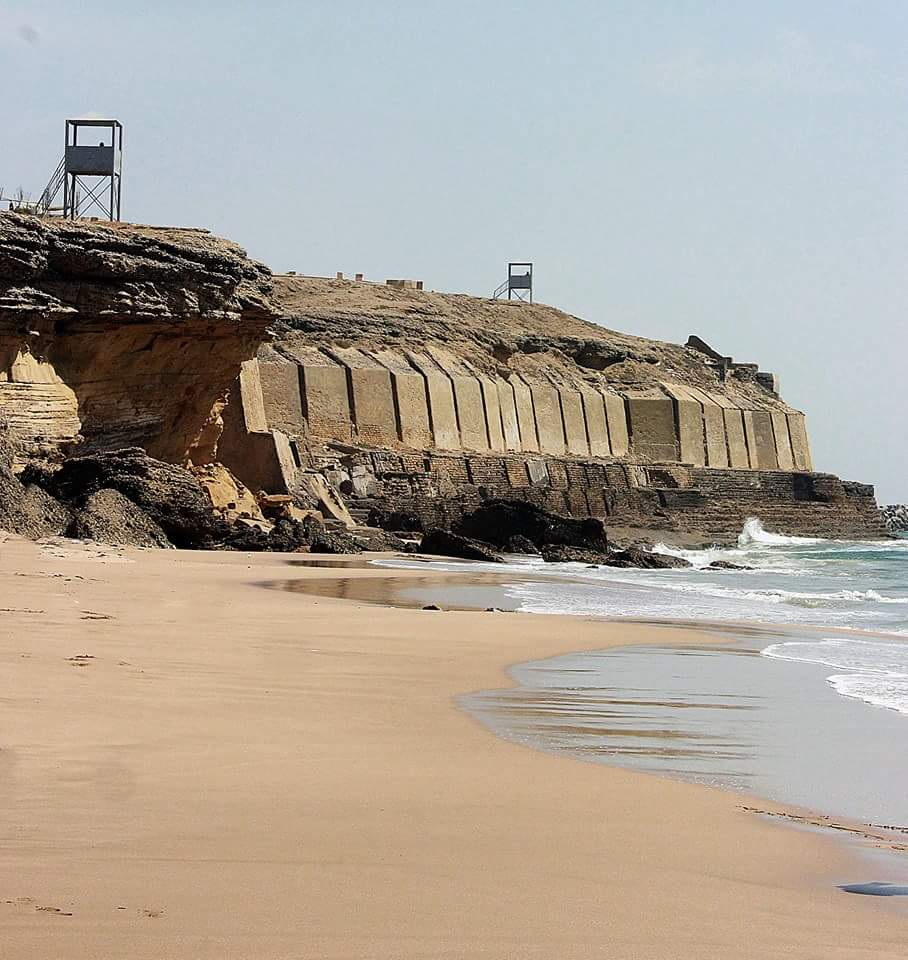 One a hot sunny day, the crispy sand and the shining water of Manora offers the perfect escape!